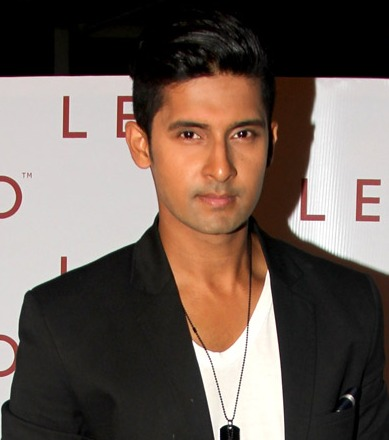 Ravi Dubey at Melissa Pais's birthday bash